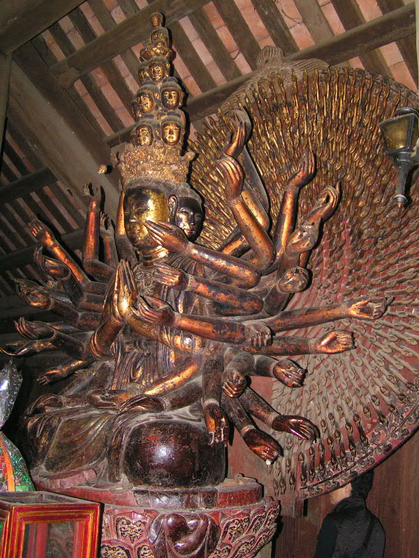 But Thap Pagoda, Bac Ninh Province, Vietnam. Quan Âm Buddha with her thousand arms and thousand eyes.